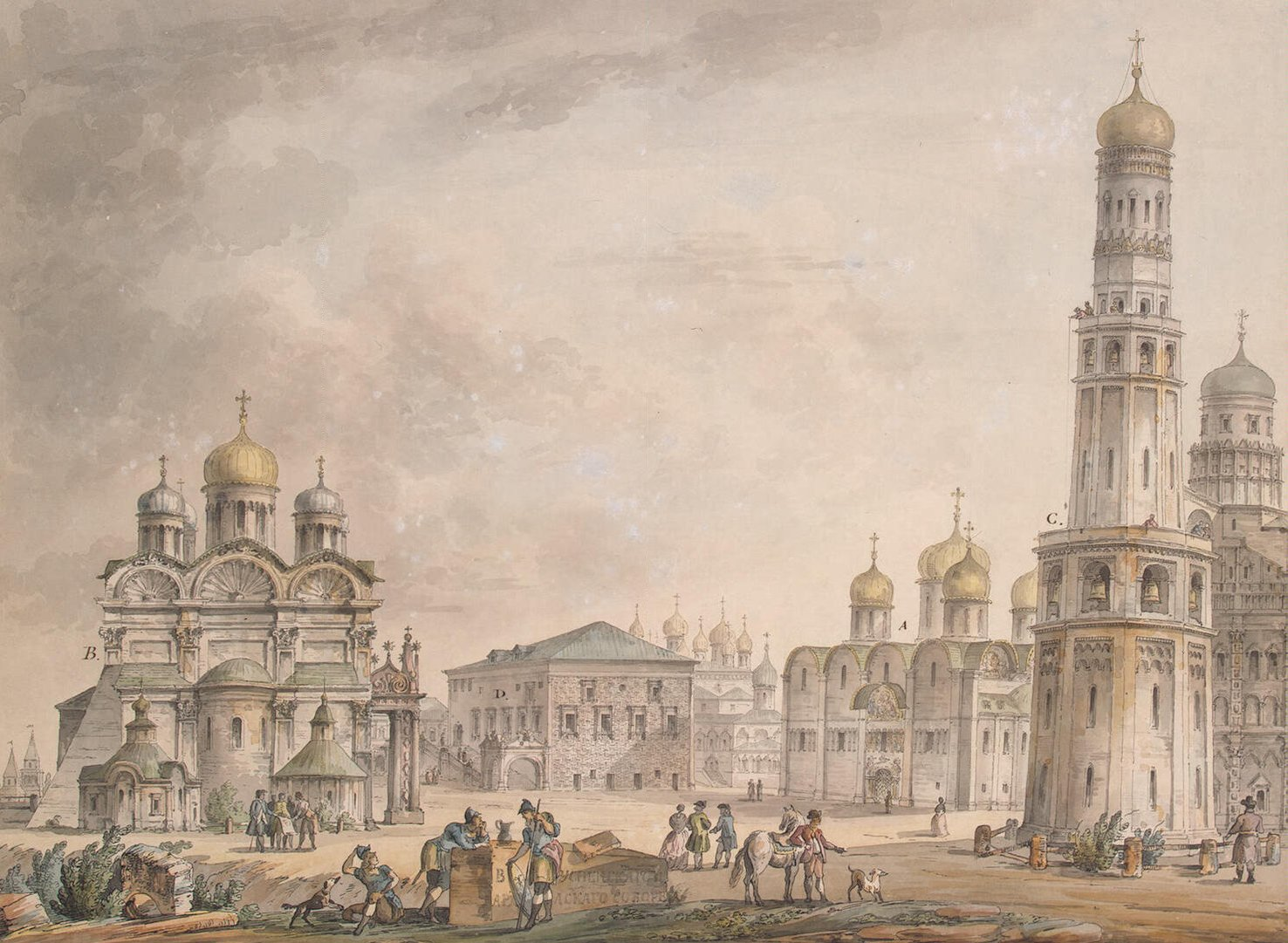 Giacomo Quarenghi. View of Cathedral Square in the Moscow Kremlin. 1797. Drawings, Pen, brush, Indian ink and watercolour, 43.2x57.2 cm. The Series Views of Moscow and its Environs. Now in State Hermitage Museum, Source of entry: acquired from K. Saunders, 1857